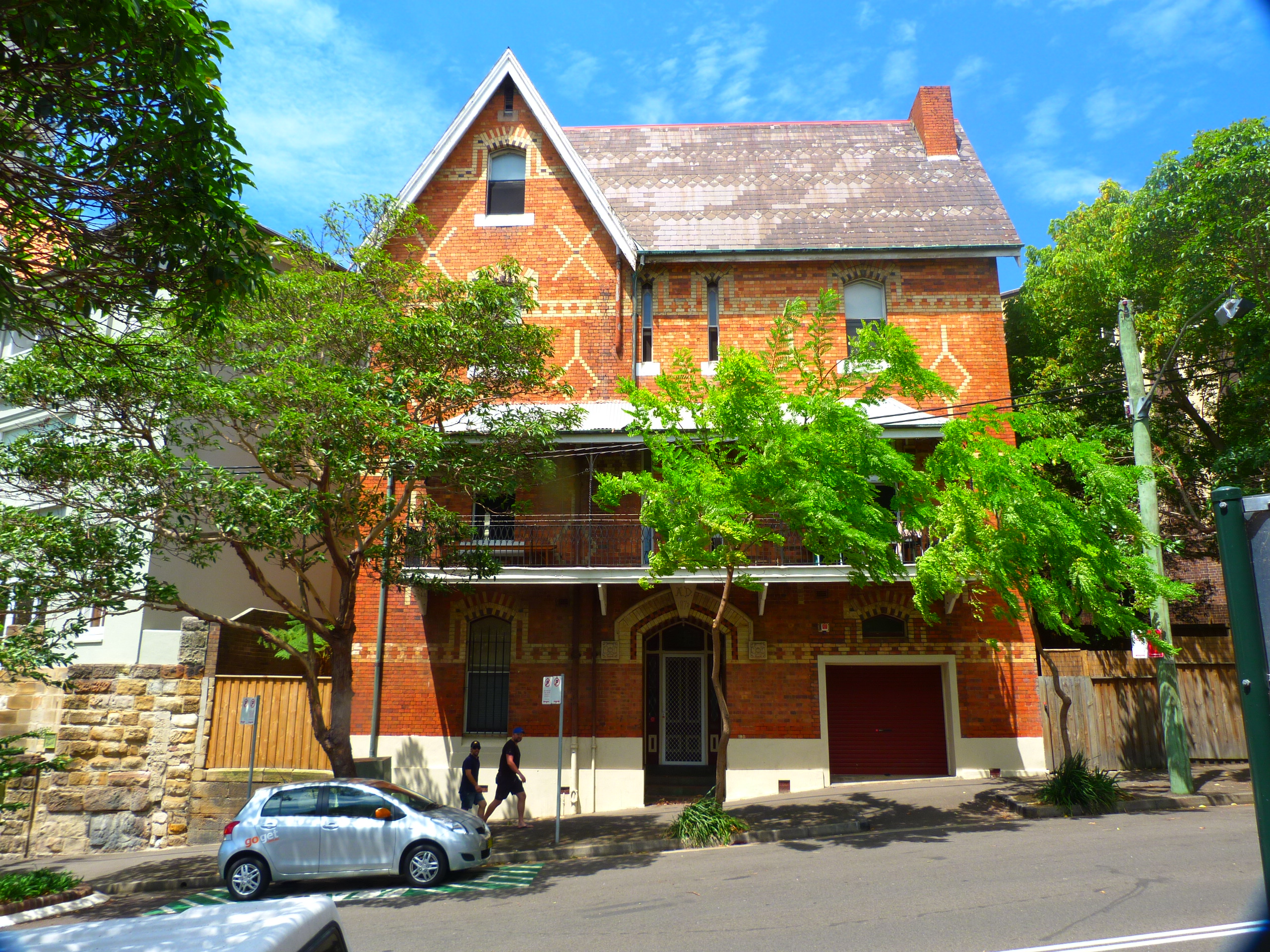 st peter's rectory, Darlinghurst, Sydney